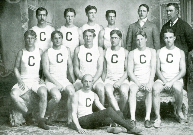 1899 Cornell Rowing Team: Back Row (l to r) : C. B. Smallwood (sub), S. W. Hartley (Bow), R. W. Beardsley (No. 6), L. S. Lyson (Sub), Gould (com), Charles Courtney (Coach). Middle Row (l to r): H. E. Vanderhoef (No. 2), W. C. Dalzell (No.7), E. R. Sweetland (No. 5), A. C. King (No. 4), R. W. Robbins (Stroke), S. W. Wakeman (No. 3). Front Row : S. L. Fisher, Captain (Cox).